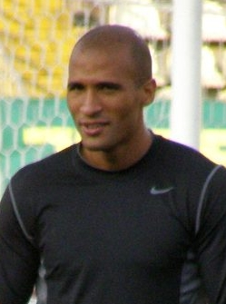 Diomansy Kamara training for Fulham F.C.